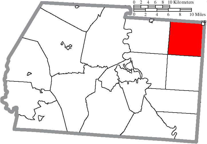 Map of the municipal and township boundaries of Ross County, Ohio, United States, as of the 2000 census, with the location of Colerain Township highlighted. Township borders are shown only in unincorporated areas in order to differentiate incorporated and unincorporated areas more clearly.